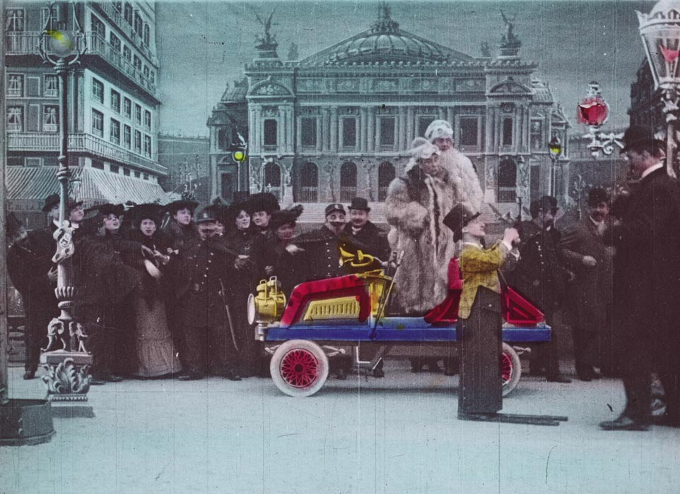 Frame from a hand-colored print of Georges Méliès's 1905 film An Adventurous Automobile Trip (Le Raid Paris–Monte-Carlo en automobile or Le Raid Paris–Monte-Carlo en deux heures).